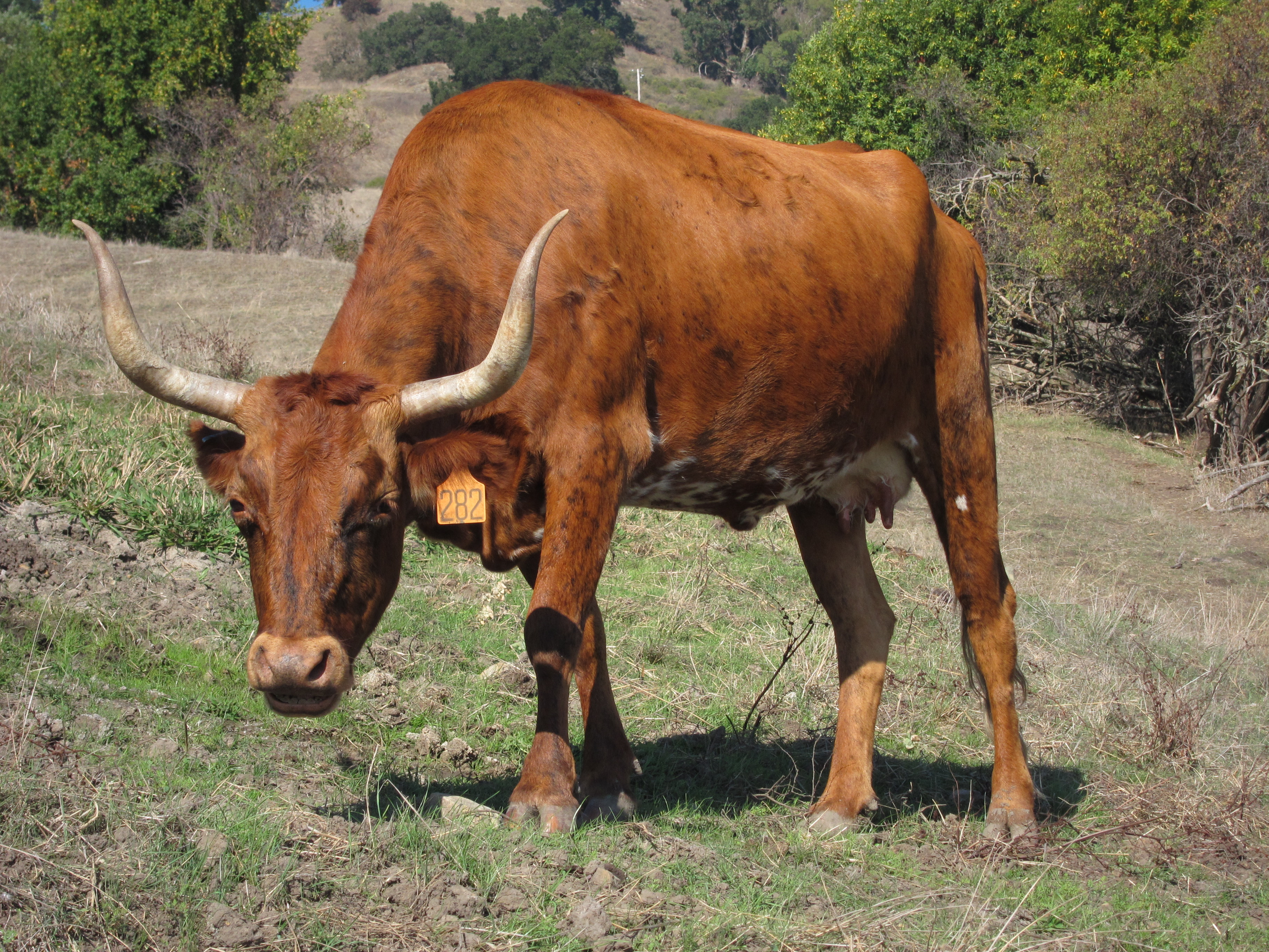 Corriente cow with white-speckled belly, Sierra Vista Open Space Preserve, California, October 2011.